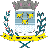 Crest of Frei Gaspar, Brazil